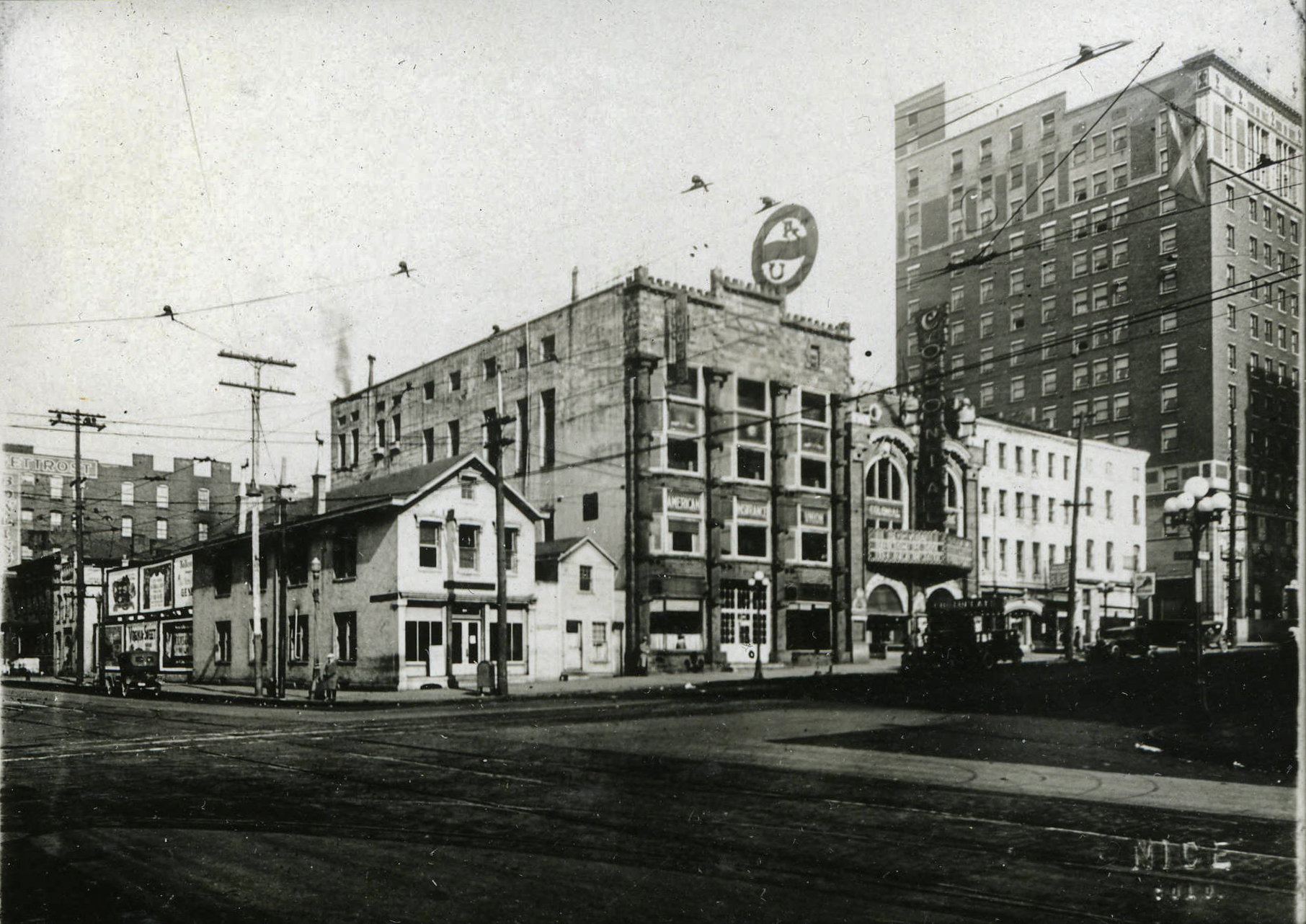 "North east corner of West Broad and Front Street prior to 1924. From 30 through 54 West Broad businesses included: Capital Hotel, Druggan and Wagner Barbers, Colonial Theater, AIU Insurance, James Park, MD, and Stagakis Restaurant. All buildings shown were demolished when construction for the American Insurance Union Citadel began, 8/13/1924."